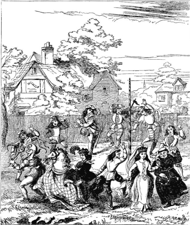 Morris dancers with maypole and pipe and taborer.